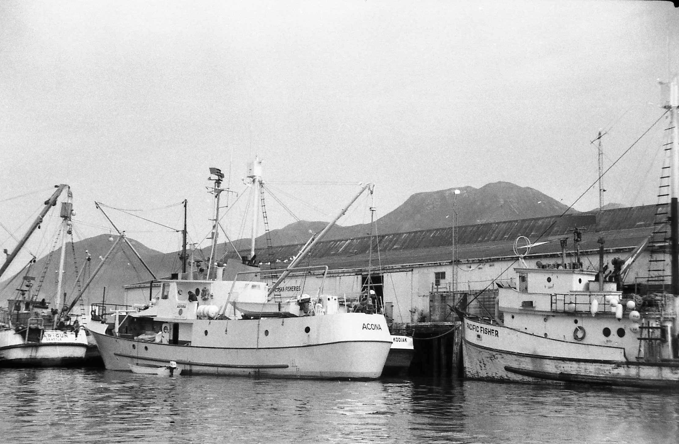 United States, Alaska, Unalaska Island. Vessels used in fishing the king crab are berthed at the wharf.